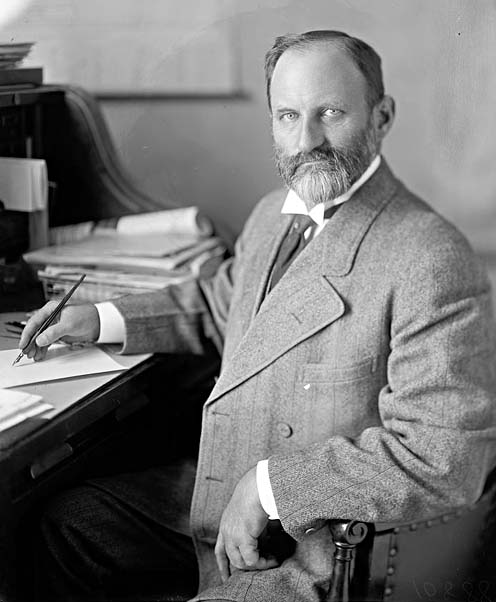 Joseph E. Ransdell, US Senator and Congressman from Louisiana